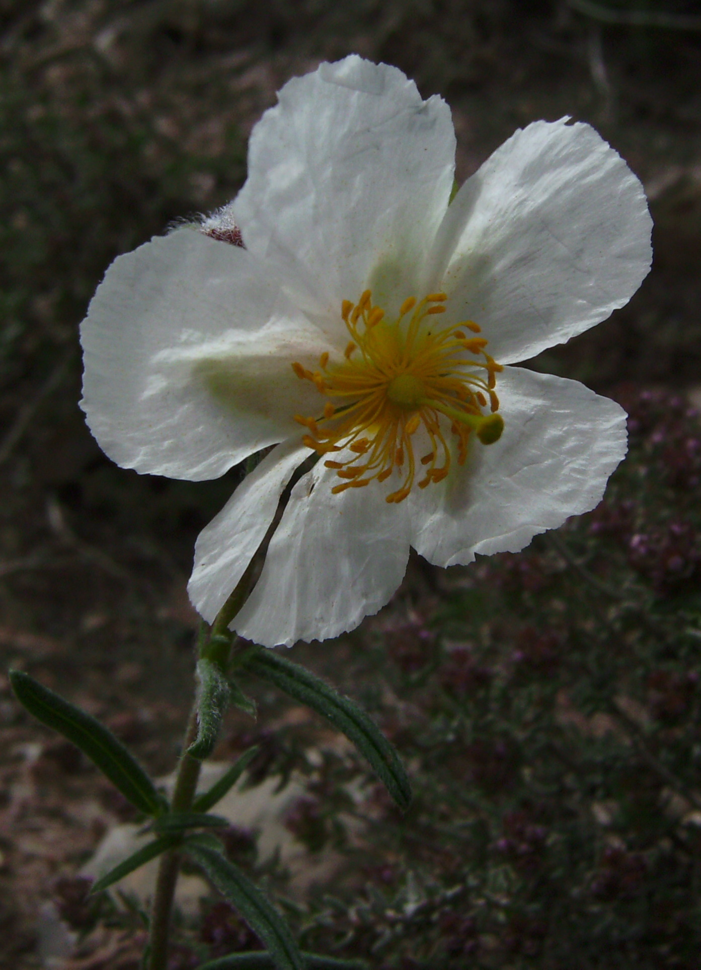 Helianthemum appenninum var pilosum flower, Castelltallat, Catalonia